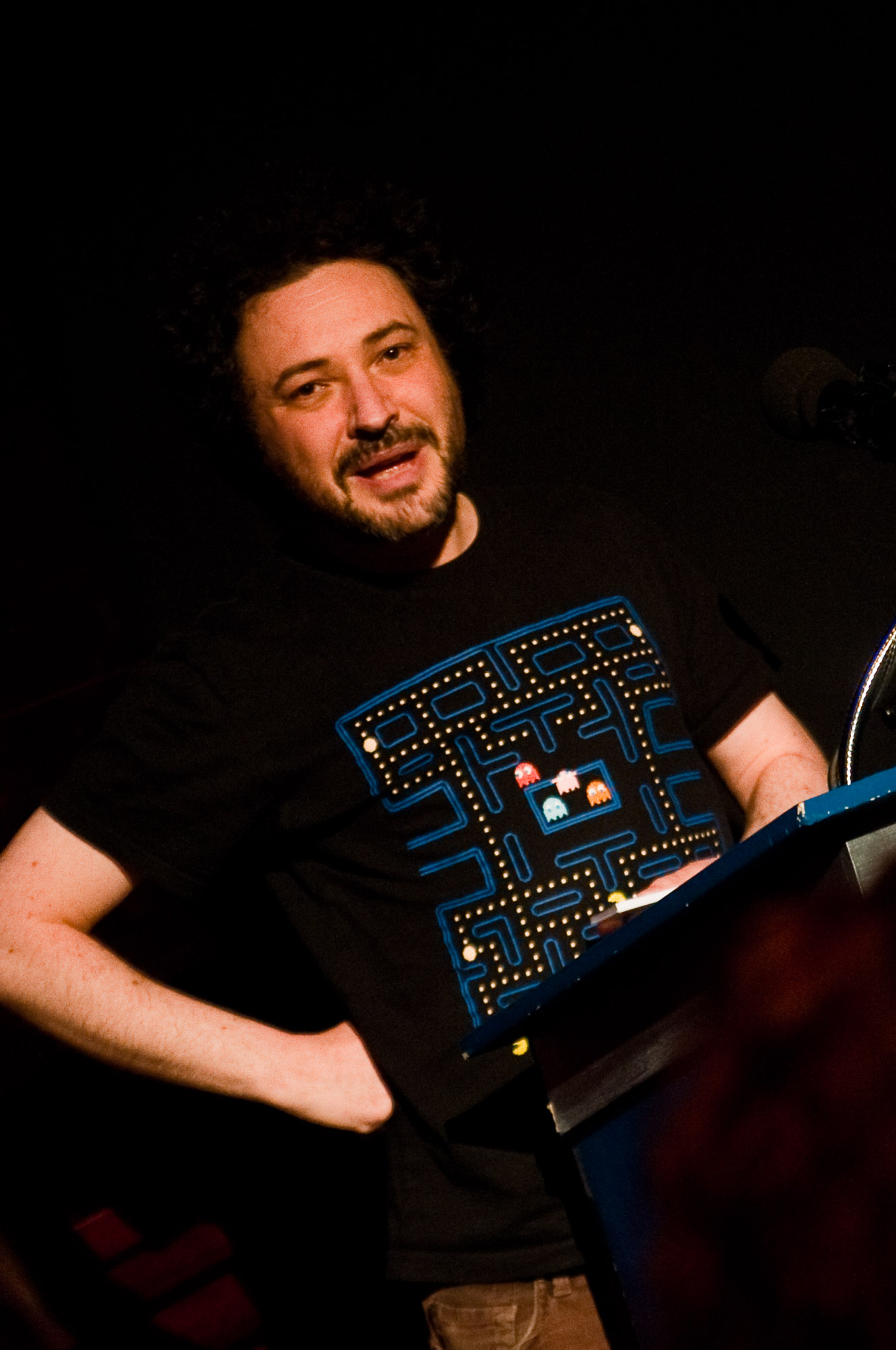 Jeremy Dyson during the "Fantasma" symposium at the Fantastic Films Weekend in Bradford (UK), 4th of June 2010